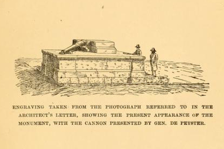 Base of the Saratoga Battle Monument, Schuylerville, New York under construction in 1877